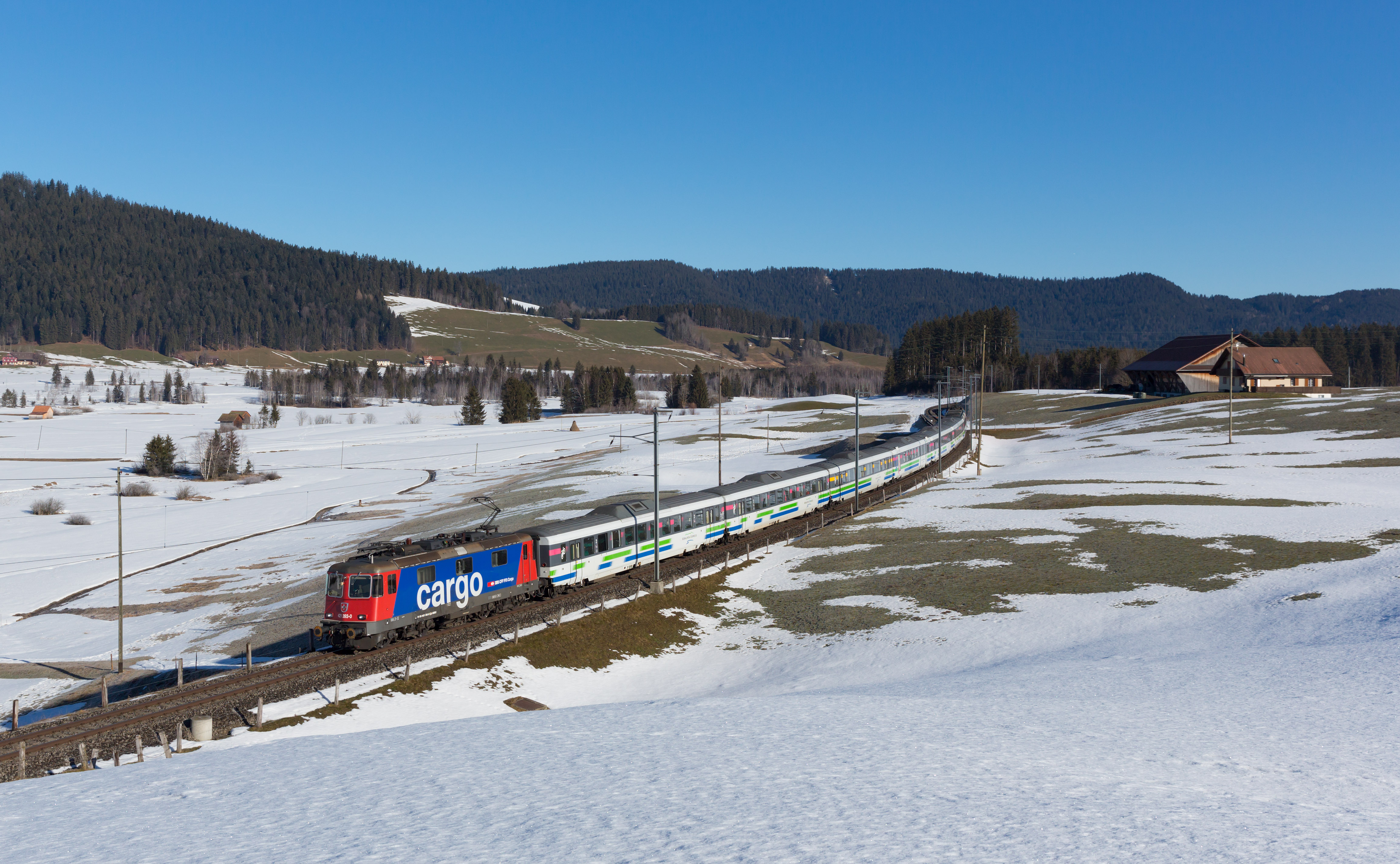 A rented Re 421 is replacing a broken Re 446 on a Voralpenexpress consist. Taken between Rothenthurm and Altmatt, Switzerland.